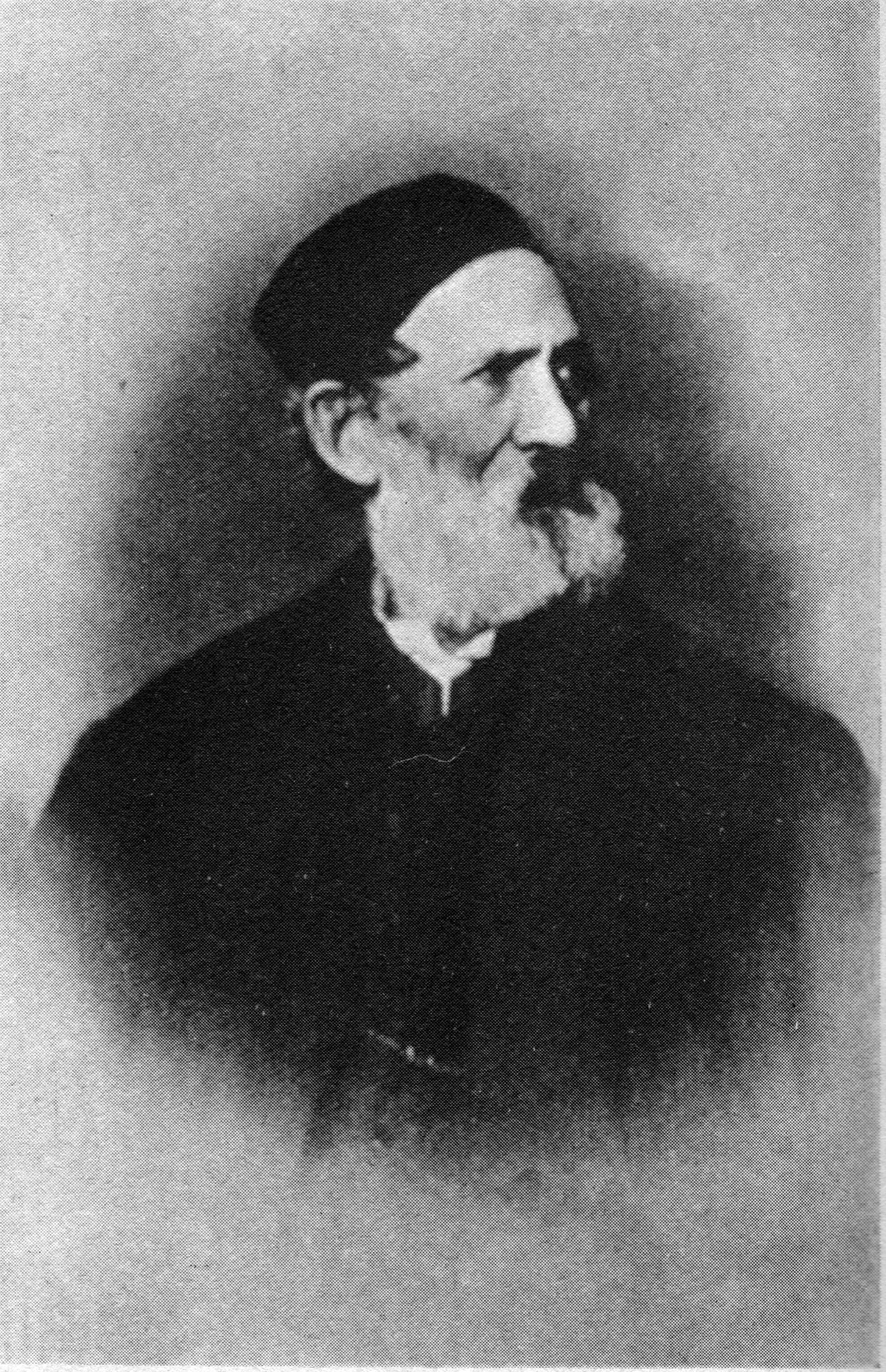 Portrait of the painter Adeodato Malatesta done in 1888 when he was 82 years old